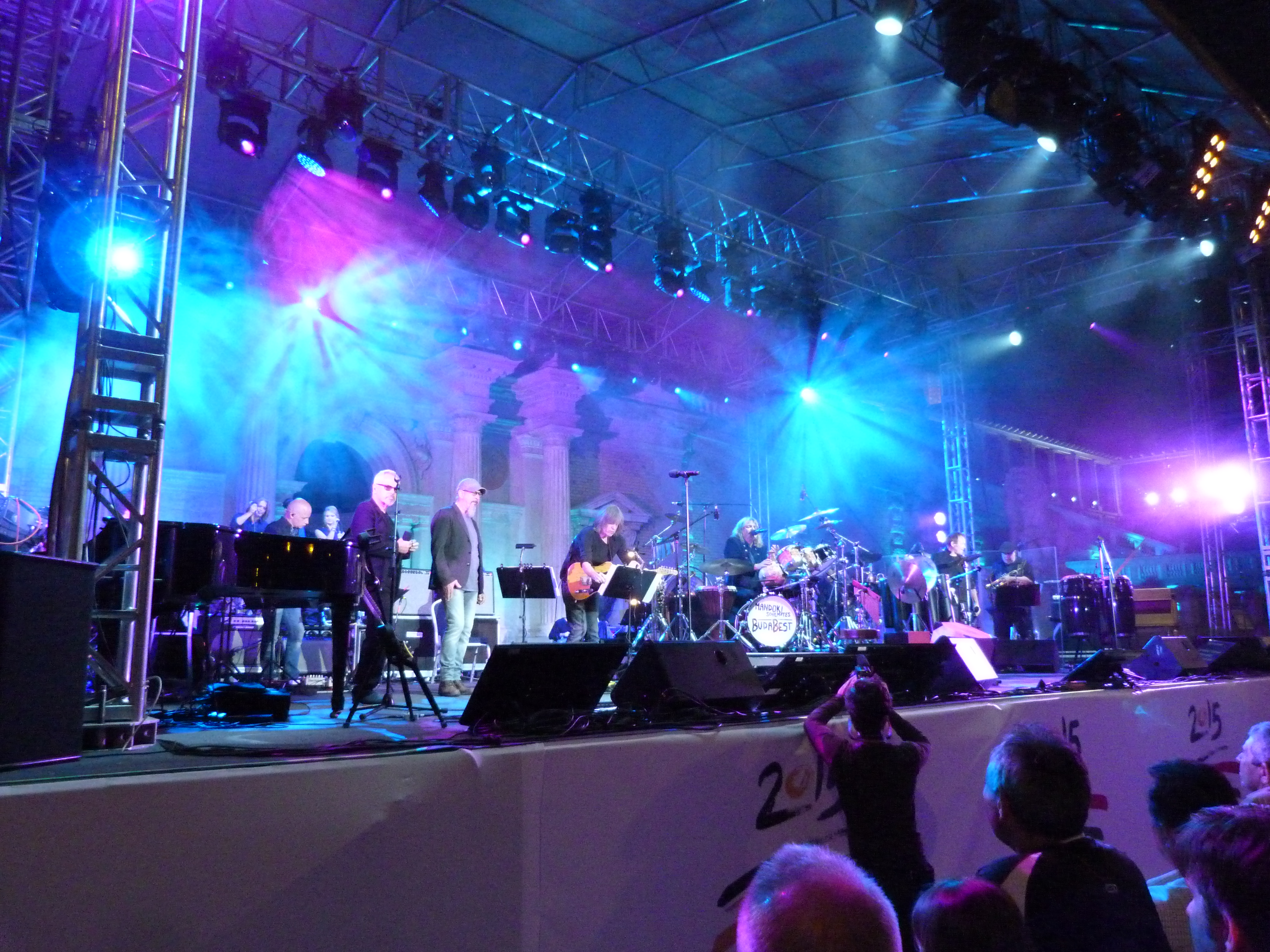 Live on the 21st of August, 2015. Várkert Bazár, Budapest, Hungary. Leslie Mandoki gave an open air concert at Várkert Bazár. His guests: Chris Thompson, Nik Kershaw, Piero Mazzocchetti, Szakcsi Lakatos Béla, Mike Stern.